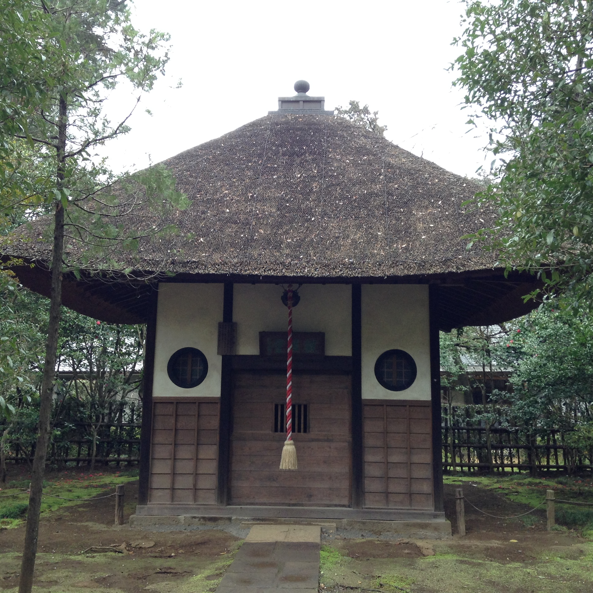 Taikei-Hall (Taikeidō) of the Heirin-Temple (Heirin-ji) in Niiza (Japan).